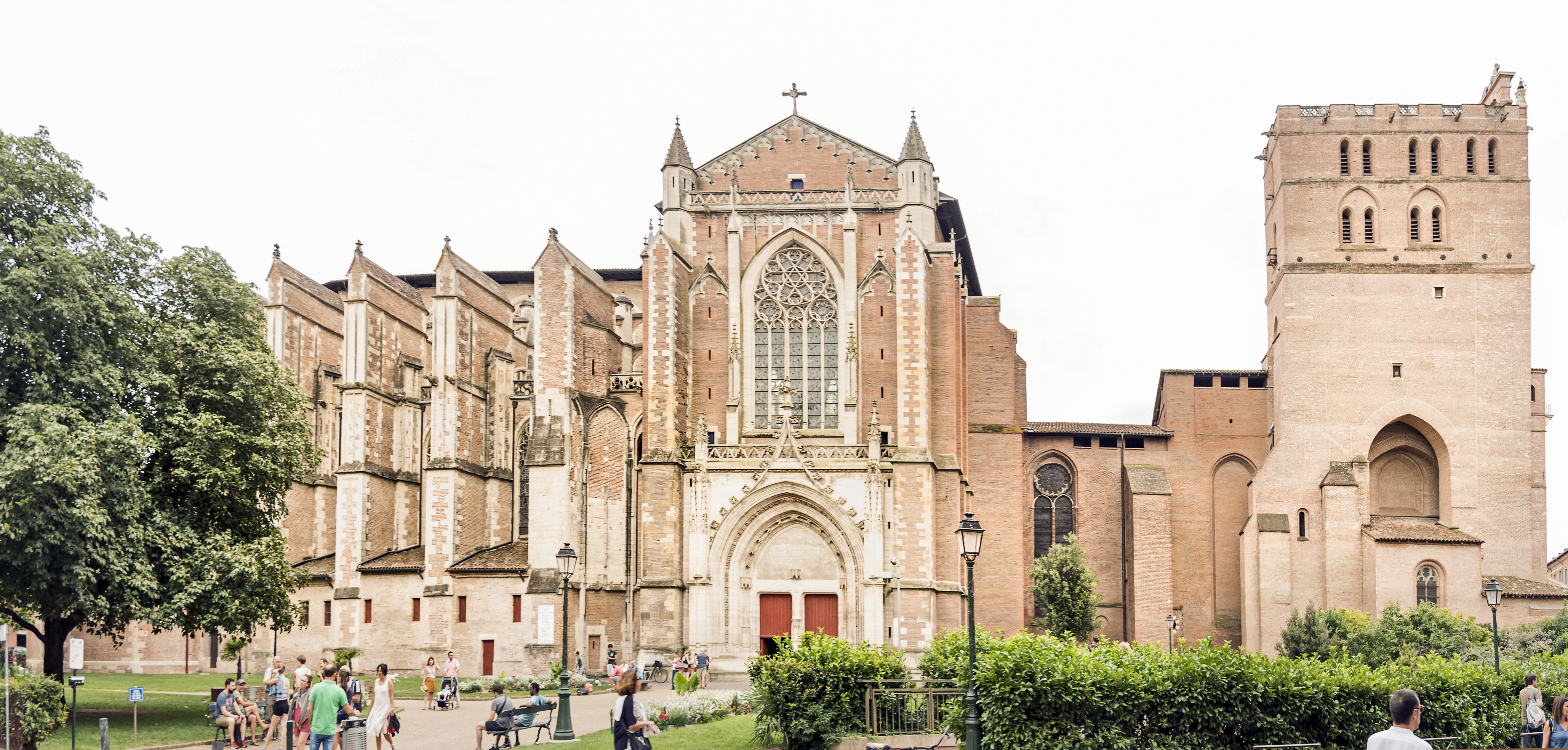 North facade of Saint-Étienne's Cathedral in Toulouse.